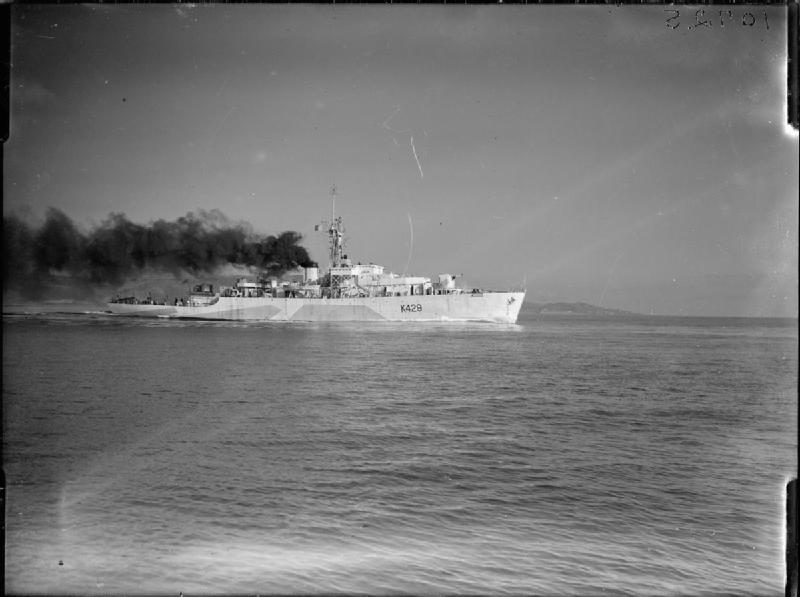 Photograph of British frigate HMS Loch Fyne.